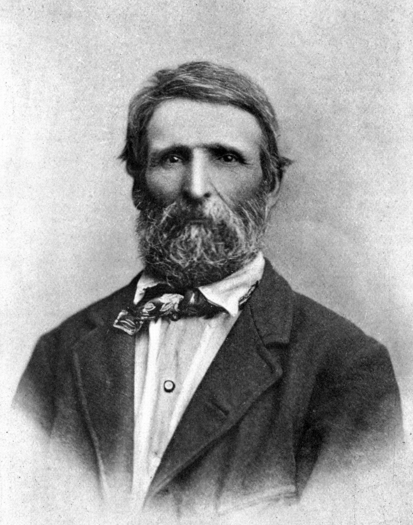 This is an image of Jean Baptiste Trudeau, a member of the Donner Party that was trapped in 1847. He was 16 or 17 in 1847.